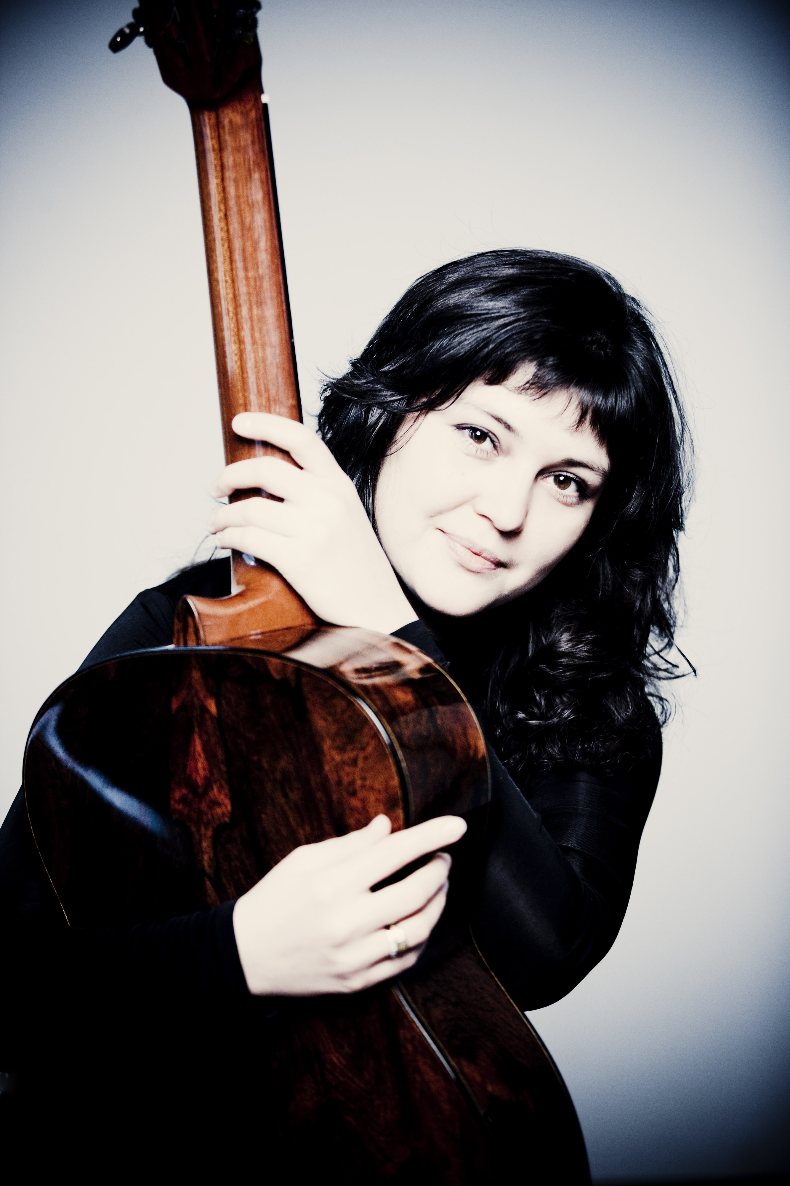 Studio photo of Irina Kulikova, classical guitarist